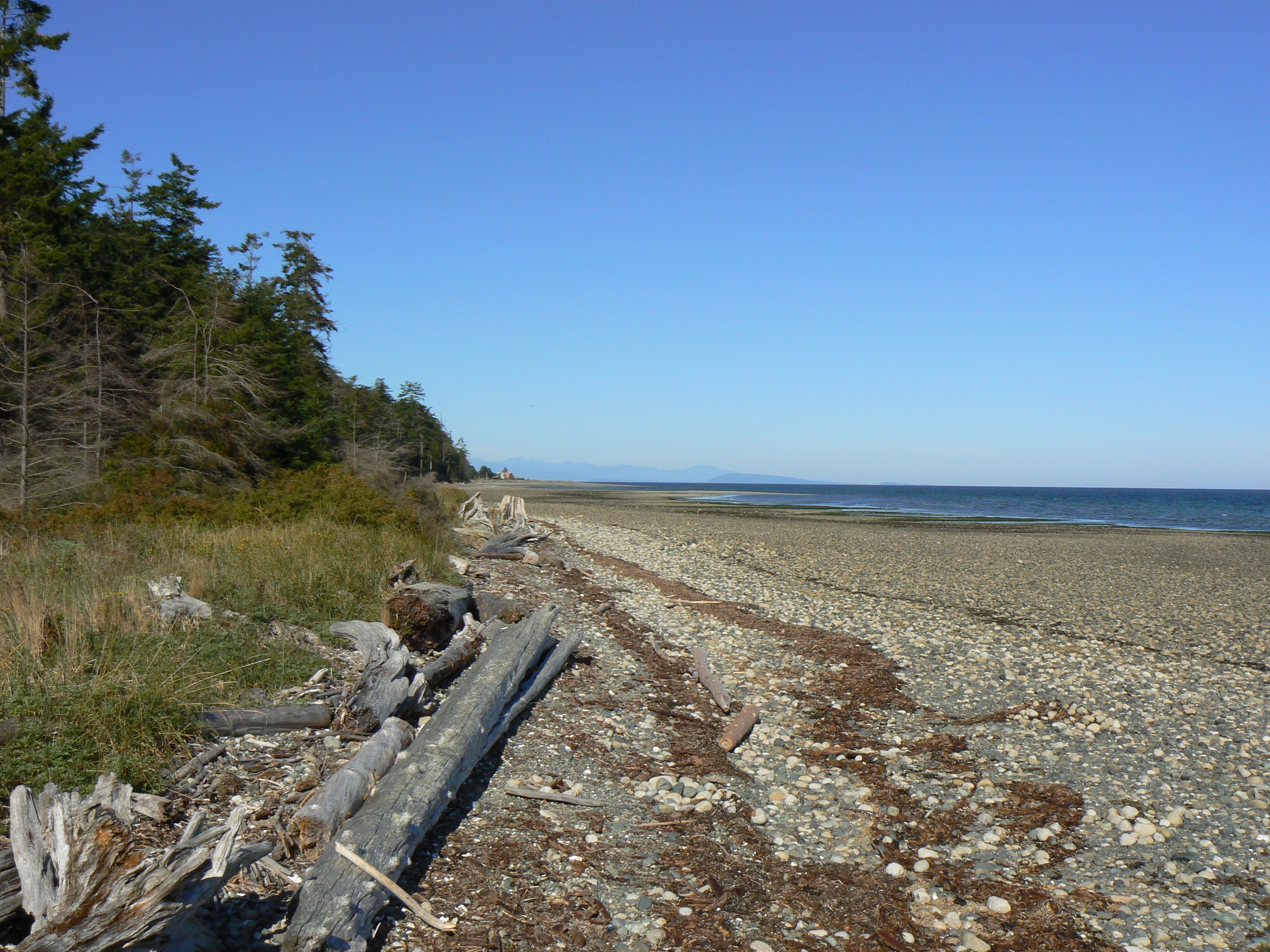 The beach at Rathtrevor Provincial Park on the east coast of Vancouver Island